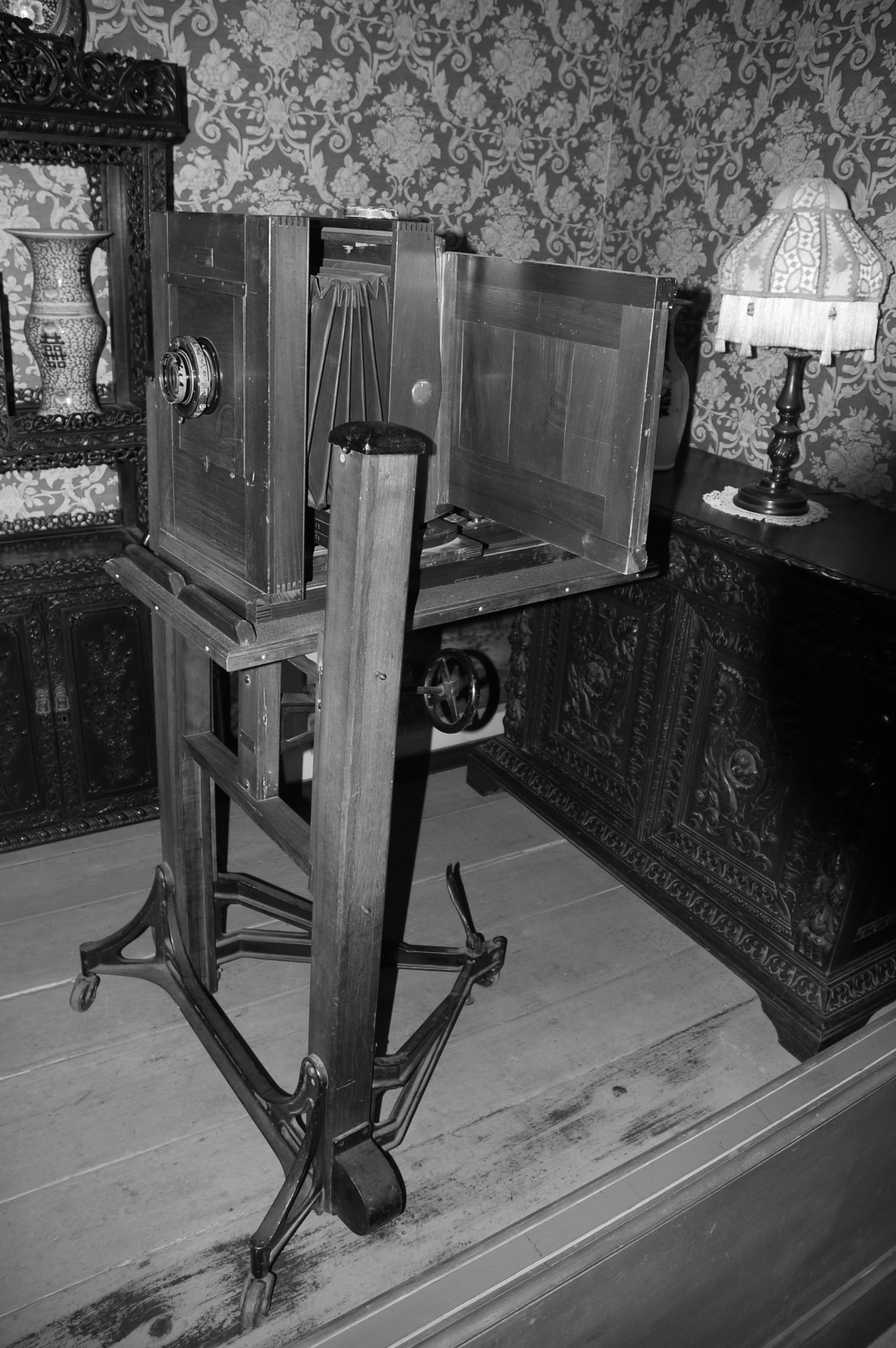 An antique camera on display in the home-turned-museum of famed Staten Island photographer E. Alice Austen.